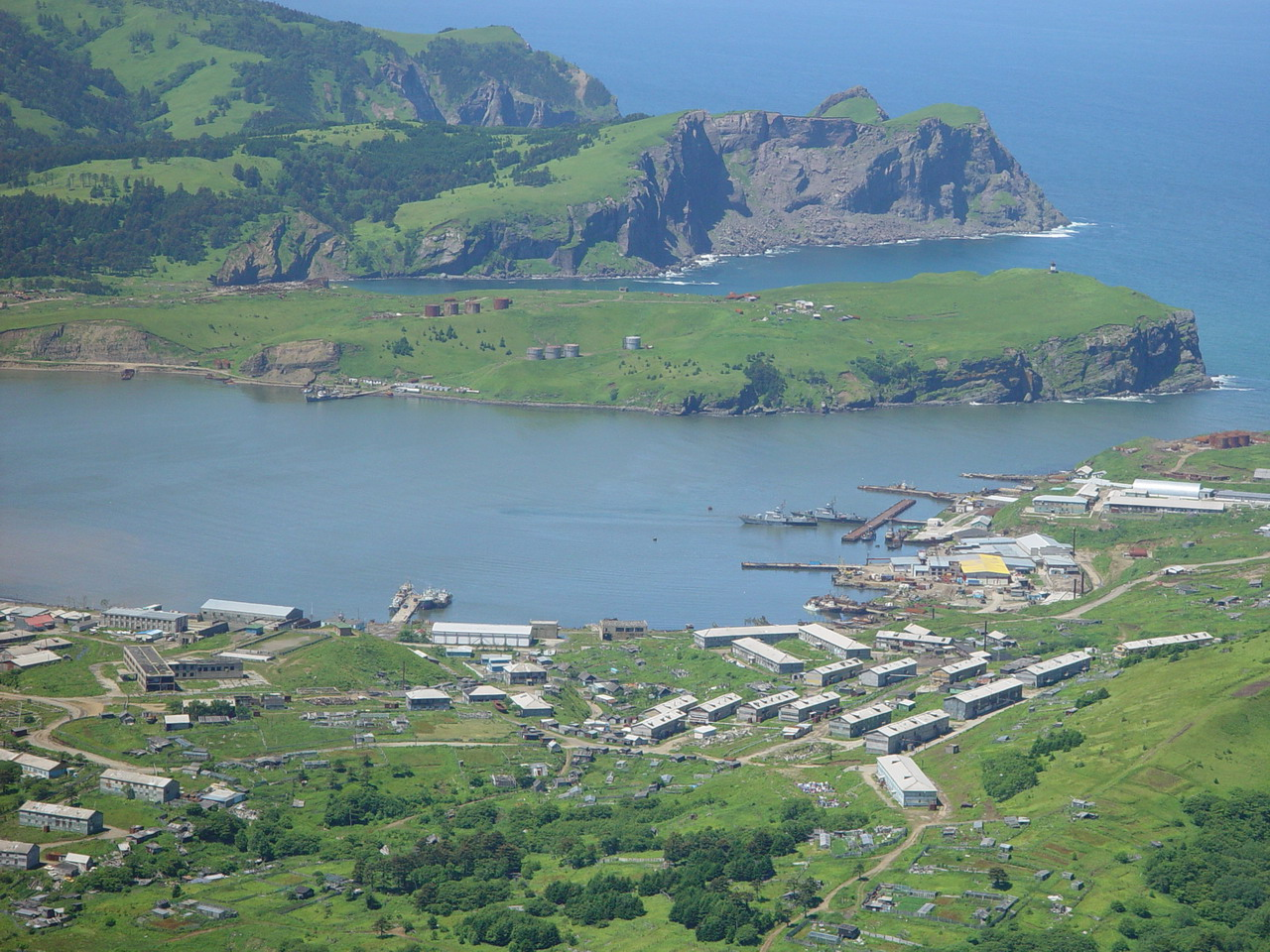 Shikotan, Malokurilskoye cove